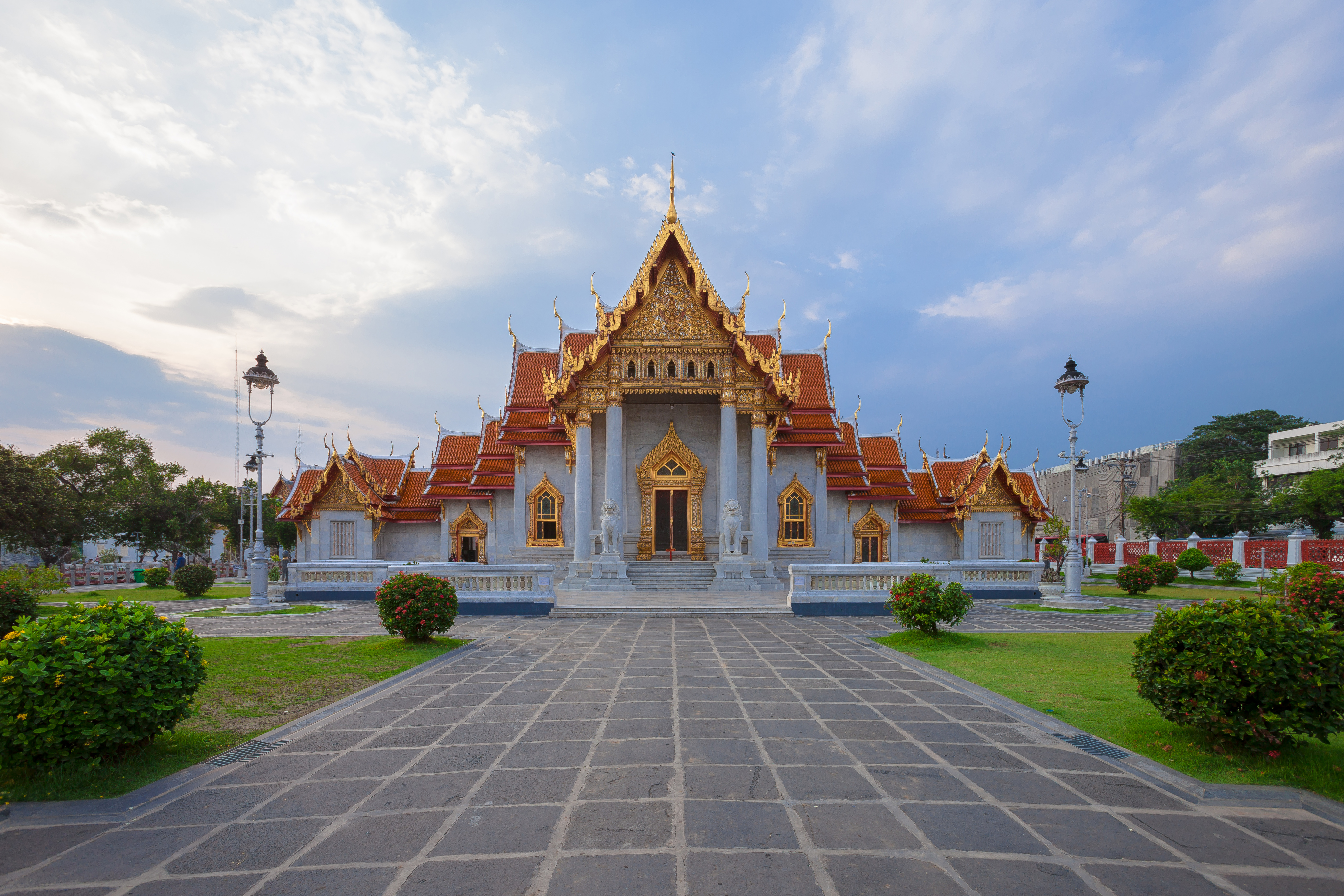 Wat Benchamabophit Dusitvanaram (Temple of the fifth King located nearby Dusit Palace, also: marble temple) is a buddhist temple (wat) in the Dusit District of Bangkok, Thailand.